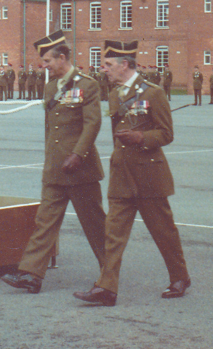 Prince Phillp and Major General John Strawson at the Irish Hussar, St Patrick's Day Parade, Bhurtpore Barracks, Tidworth, 17th March 1980